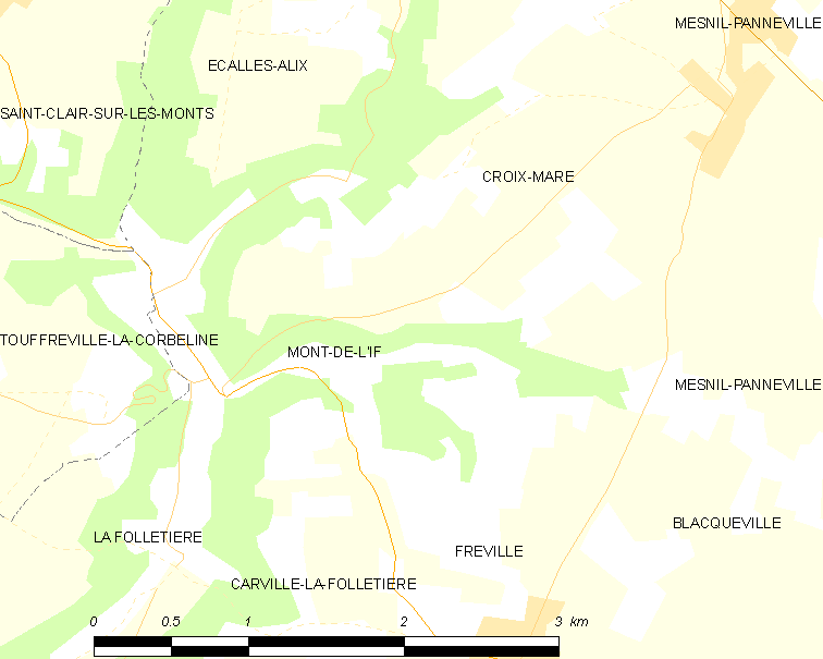 Map of French municipality Mont-de-l'If